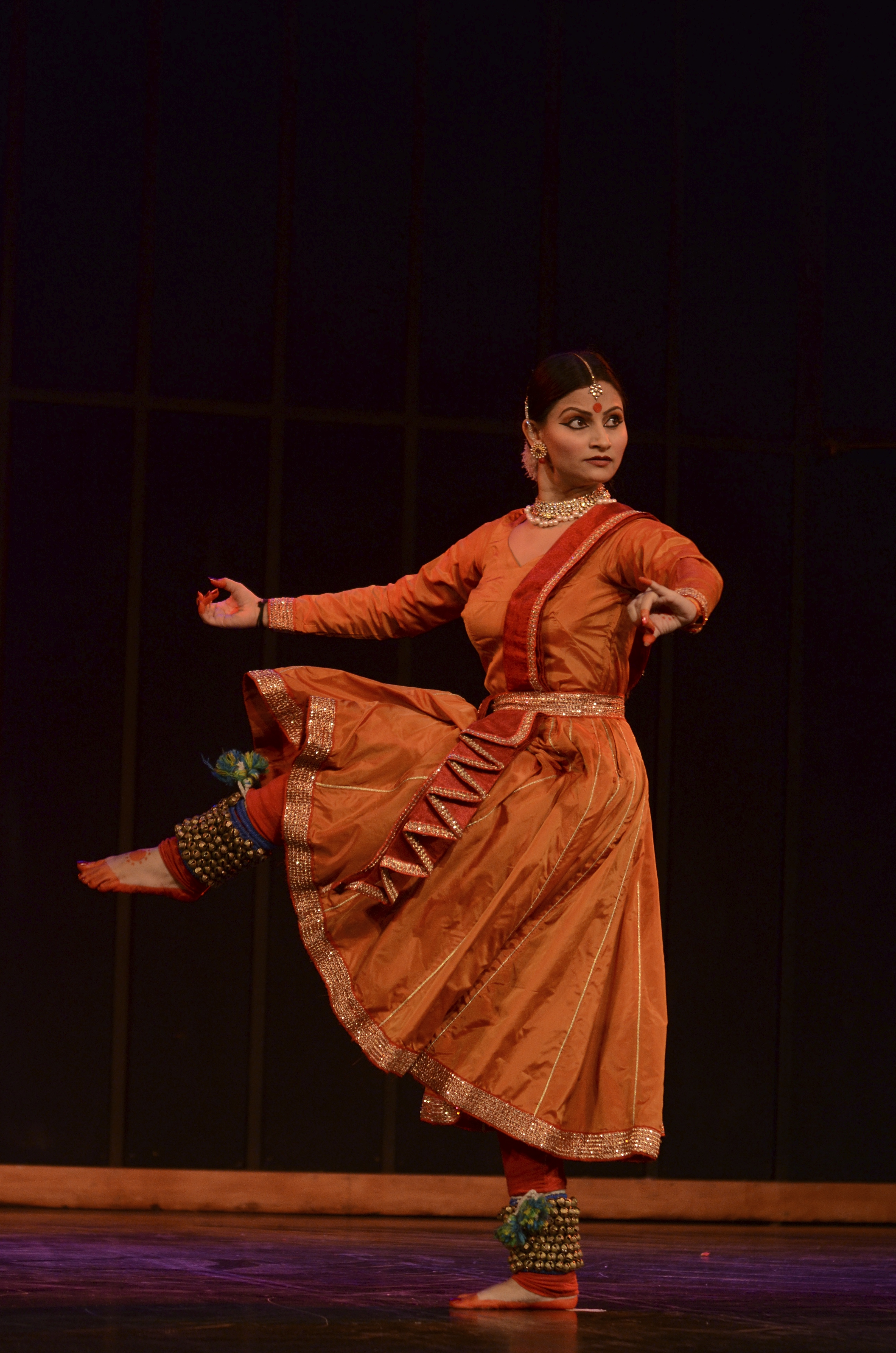 Kathak Danseuse Namrta Rai performing with 400 Ghungroos